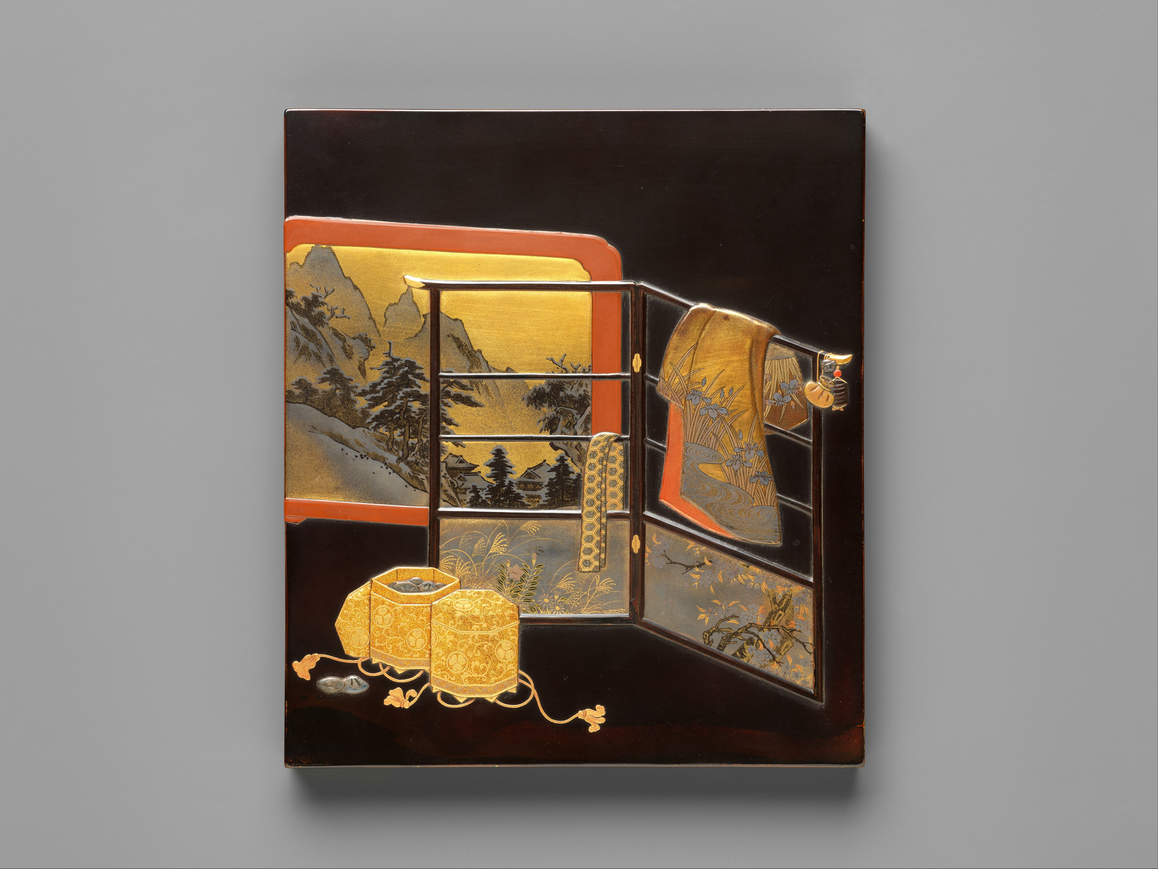 Japan; Writing box; Lacquer